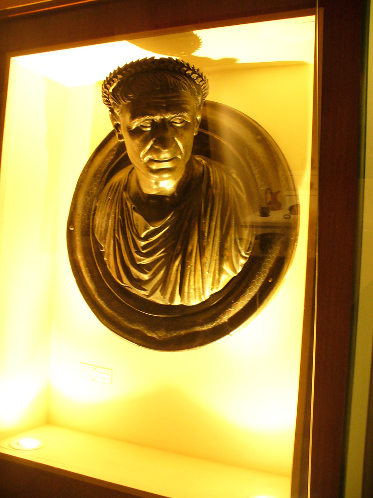 Bronze relief of the divine Trajan; 1st-2nd c. AD; Museum of Anatolian Civilizations.